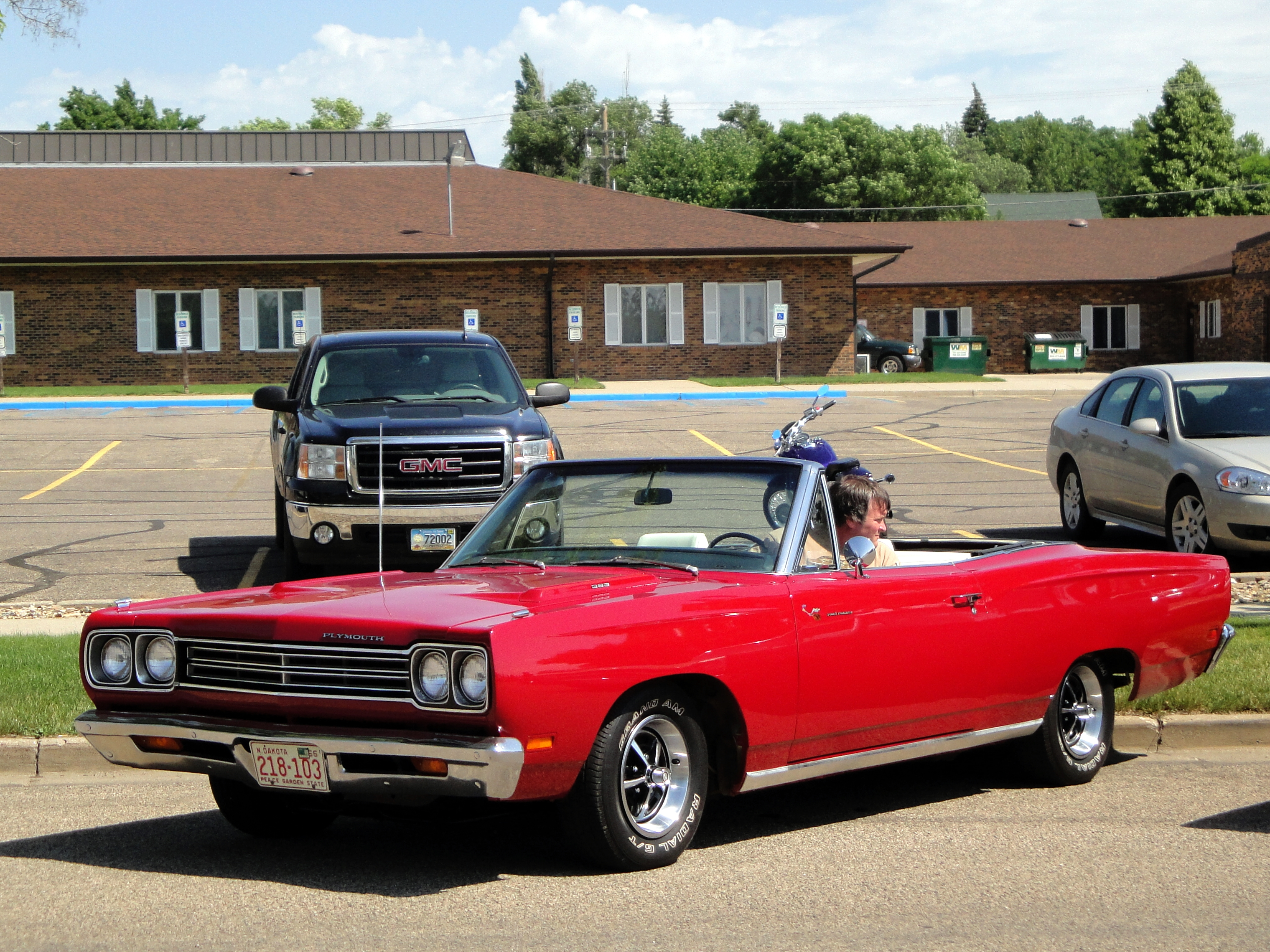 Bismark, North Dakota June 2012